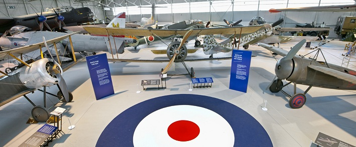 WW1 exhibition at the Royal Air Force Museum in Cosford, the sister site of RAF Museum London. These aircraft were originally displayed in London.